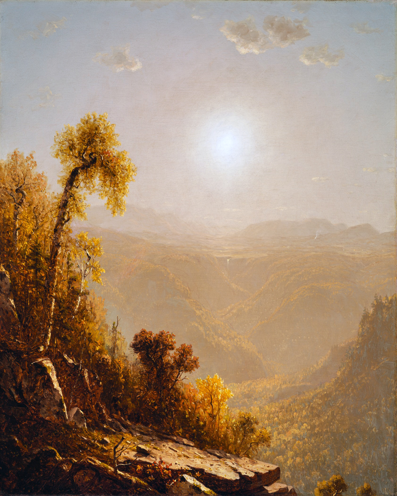 Sanford Robinson Gifford (United States, New York, Greenfield, 1823 - 1880) October in the Catskills, 1880 Painting, Oil on canvas, 36 5/16 x 29 3/16 in. (92.23 x 74.14 cm) Gift of Mr. and Mrs. J. Douglas Pardee, Mr. and Mrs. John McGreevey, and Mr. and Mrs. Charles C. Shoemaker (M.77.141) Wikipedia Loves Art at the Los Angeles County Museum of Art This photo of item # M.77.141 at the Los Angeles County Museum of Art was contributed under the team name "artifacts" as part of the Wikipedia Loves Art project in February 2009. Los Angeles County Museum of Art The original photograph on Flickr was taken by Beesnest McClain—please add a comment to the original Flickr page whenever a use has been made on Wikipedia or another project. Project galleries on Flickr: this institution, this team